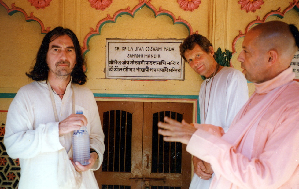 George Harrison, Shyamasundara Dasa and Mukunda Goswami in Vrindavan in front of Jiva Goswami Samadhi